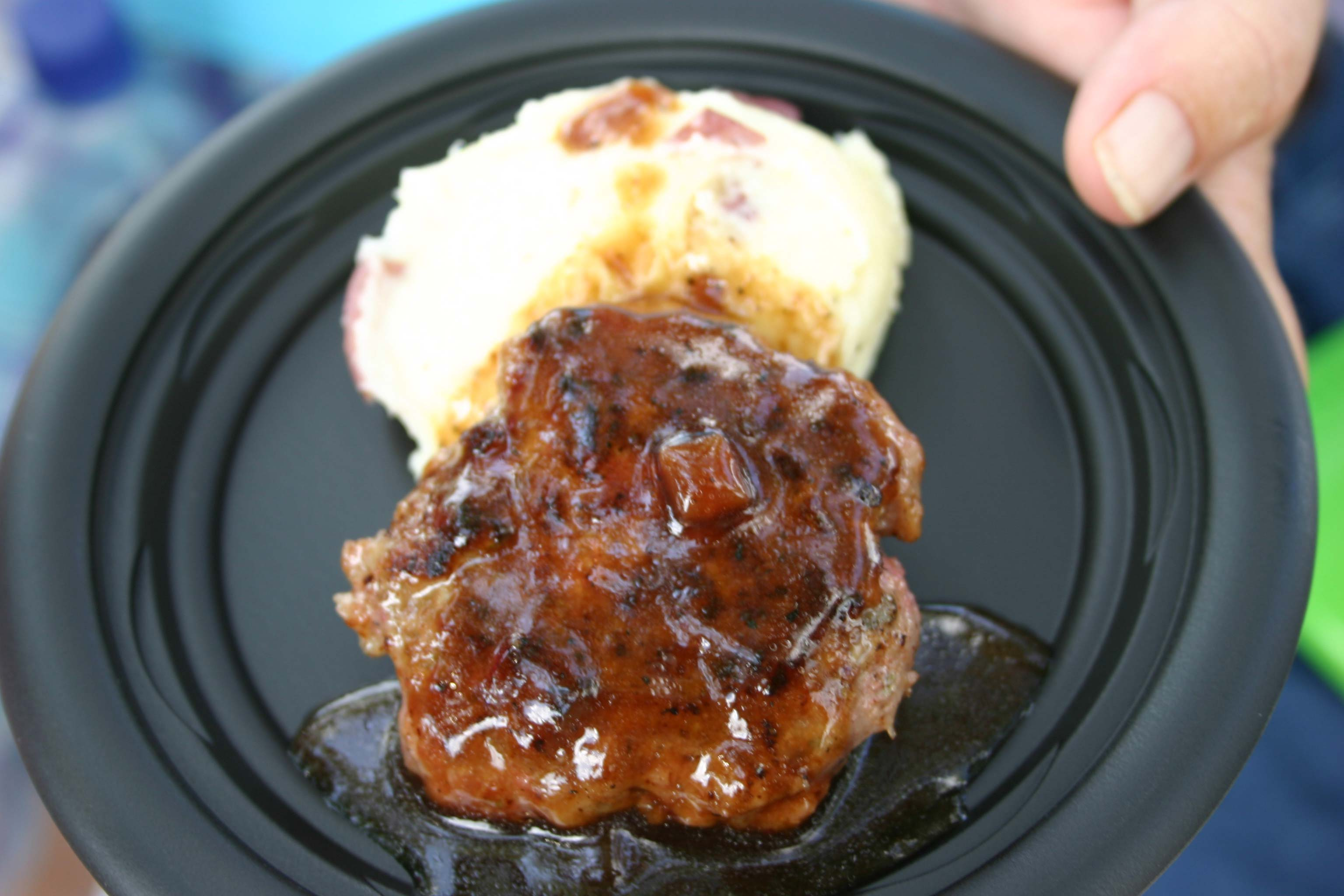 Scandinavian Meat Patties with Cauliflower Cheese Mashed Potatoes From the Scandinavian Kiosk in 'Norway' at Walt Disney World's EPCOT during Food and Wine Festival.